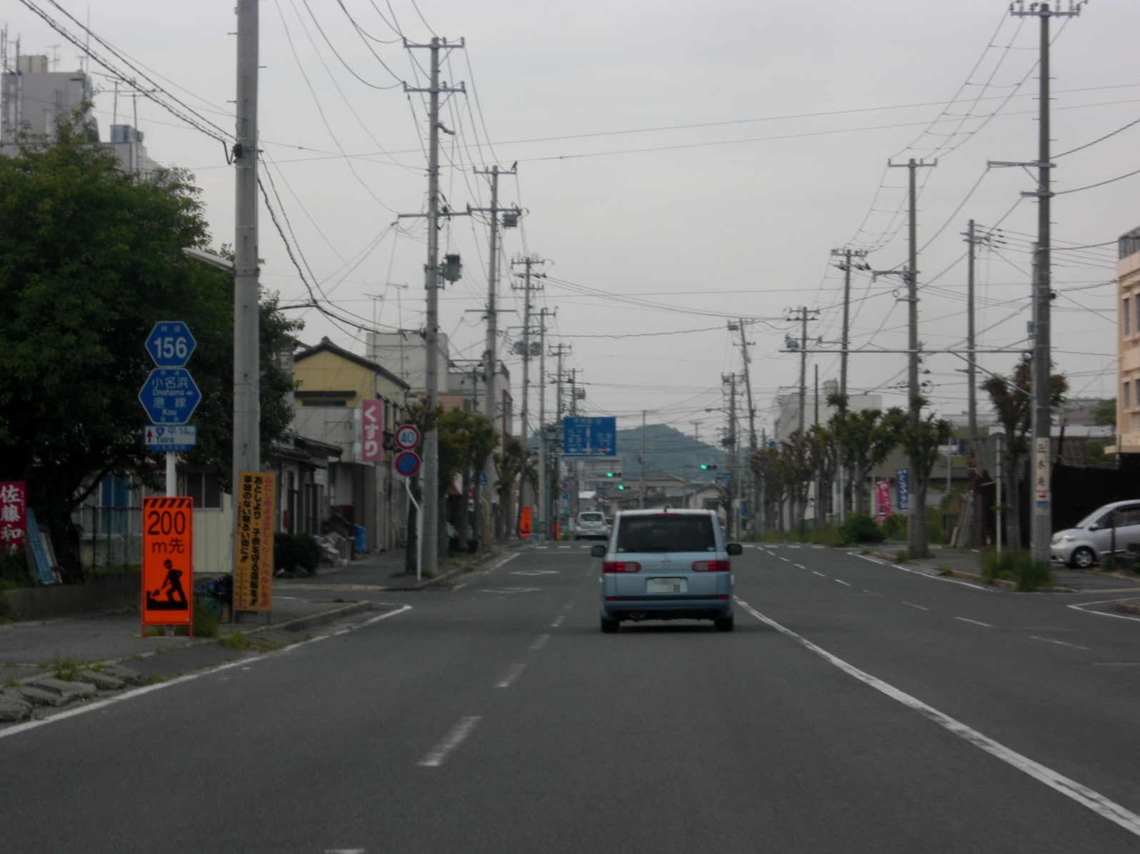 This is a landscape of Fukushima pref. road No.156 Onahama port line in Iwaki, Fukushima, Japan.